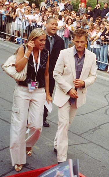 Viggo Mortensen arriving at the Toronto International Film Festival while promoting History of Violence.